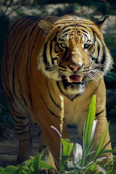 This Image Shows a Tiger Exploring a San Diego Zoo Exhibit.